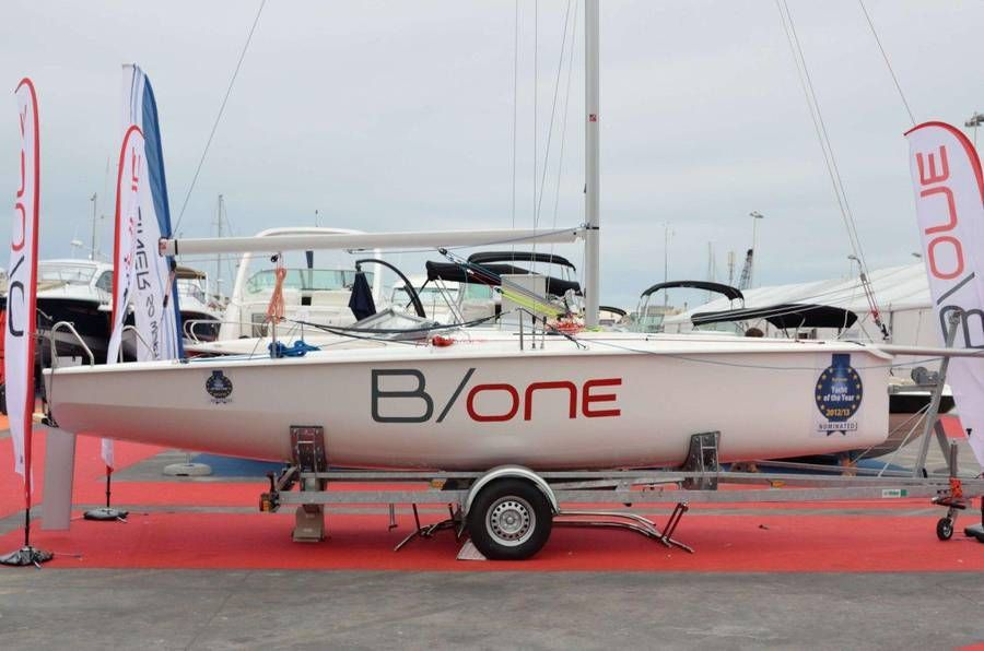 Bavaria B/One on road trailer